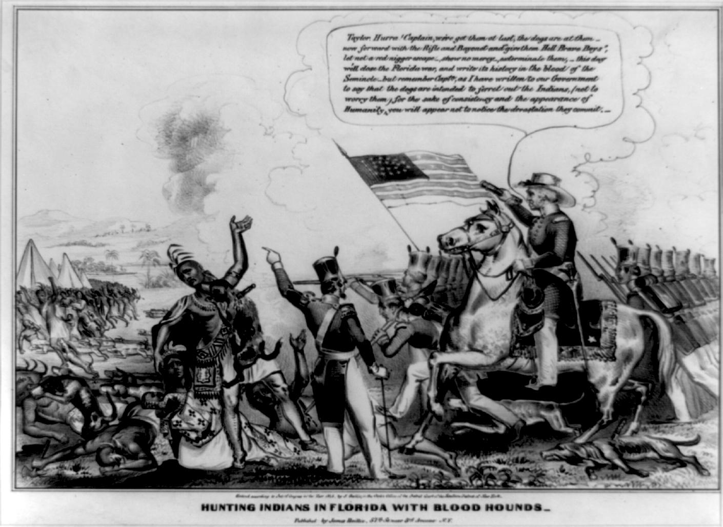 Downloaded from TITLE: Hunting Indians in Florida with blood hounds CALL NUMBER: PC/US - 1848.B157, no. 38 (B size) [P&P] REPRODUCTION NUMBER: LC-USZ62-89725 (b&w film copy neg.) SUMMARY: A tableau dramatizing the brutal tactics employed by Zachary Taylor as commander of U.S. forces against the Seminole Indians during the Second Seminole War (1835-42). Taylor, on horseback at right, presides over a scene of devastation and carnage. Soldiers aided by bloodhounds relentlessly pursue retreating Seminoles, including a multitude of women and children who flee in panic to the left. A wounded dog lies on the ground in the lower right, while another lunges at the throat of a Seminole brave who shields a woman and child at left. A village burns in the distance In the center an officer standing with his back to the viewer points out the slaughter to Taylor, who exclaims, "Hurra! Captain, we've got them at last, the dogs are at them--now forward with the Rifle and Bayonet and "give them Hell Brave Boys", let not a red nigger escape-, show no mercy-, exterminate them, -this day we'll close the Florida War, and write its history in the blood of the Seminole--but remember Captn., as I have written to our Government to say that the dogs are intended to ferret out the Indians, (not to worry them) for the sake of consistency and the appearance of Humanity, you will appear not to notice the devastation they commit." MEDIUM: 1 print : lithograph on wove paper ; 30.1 x 38.8 cm (image) CREATED/PUBLISHED: 1848. RELATED NAMES: Baillie, James S., fl. 1838-1855. NOTES: Title appears as it is written on the item. Published by James Baillie, 87th St. near 3rd Avenue N.Y. Entered . . . 1848, by James Baillie . . . Weitenkampf, pp. 96-97 Published in: American political prints, 1766-1876 / Bernard F. Reilly. Boston : G.K. Hall, 1991, entry 1848-20.